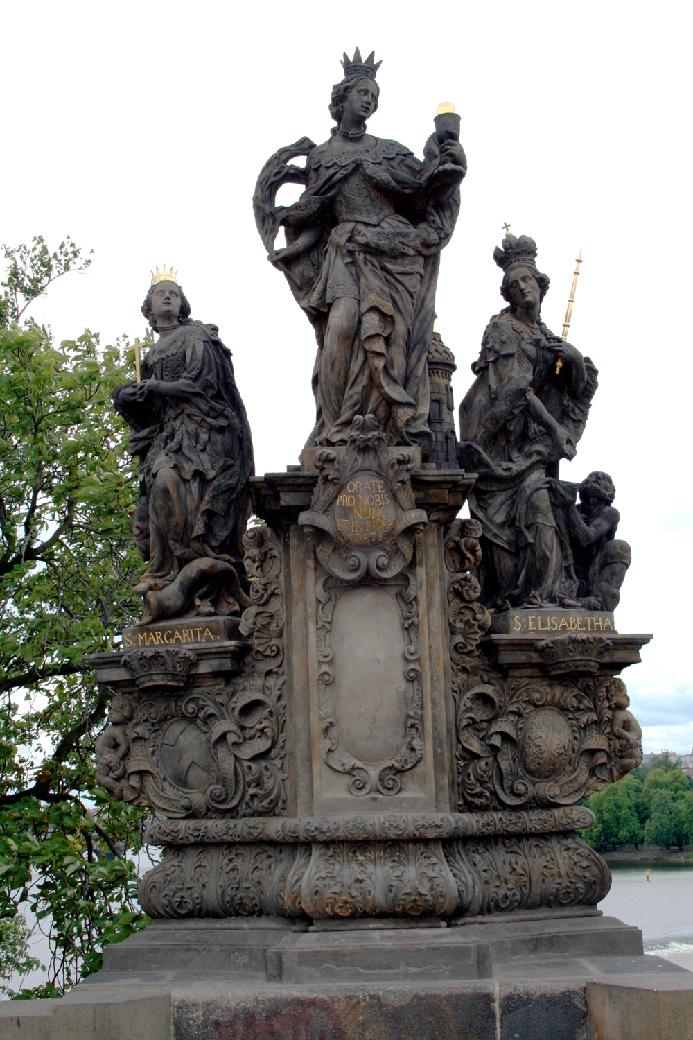 Brokoff: St Barbara, Margaret and Elizabeth (Prague, Charles Bridge) Photo July 2007 Author= Karelj